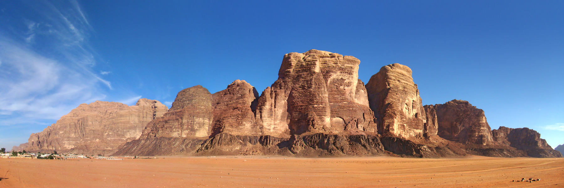 Wadi Rum, Jordan.